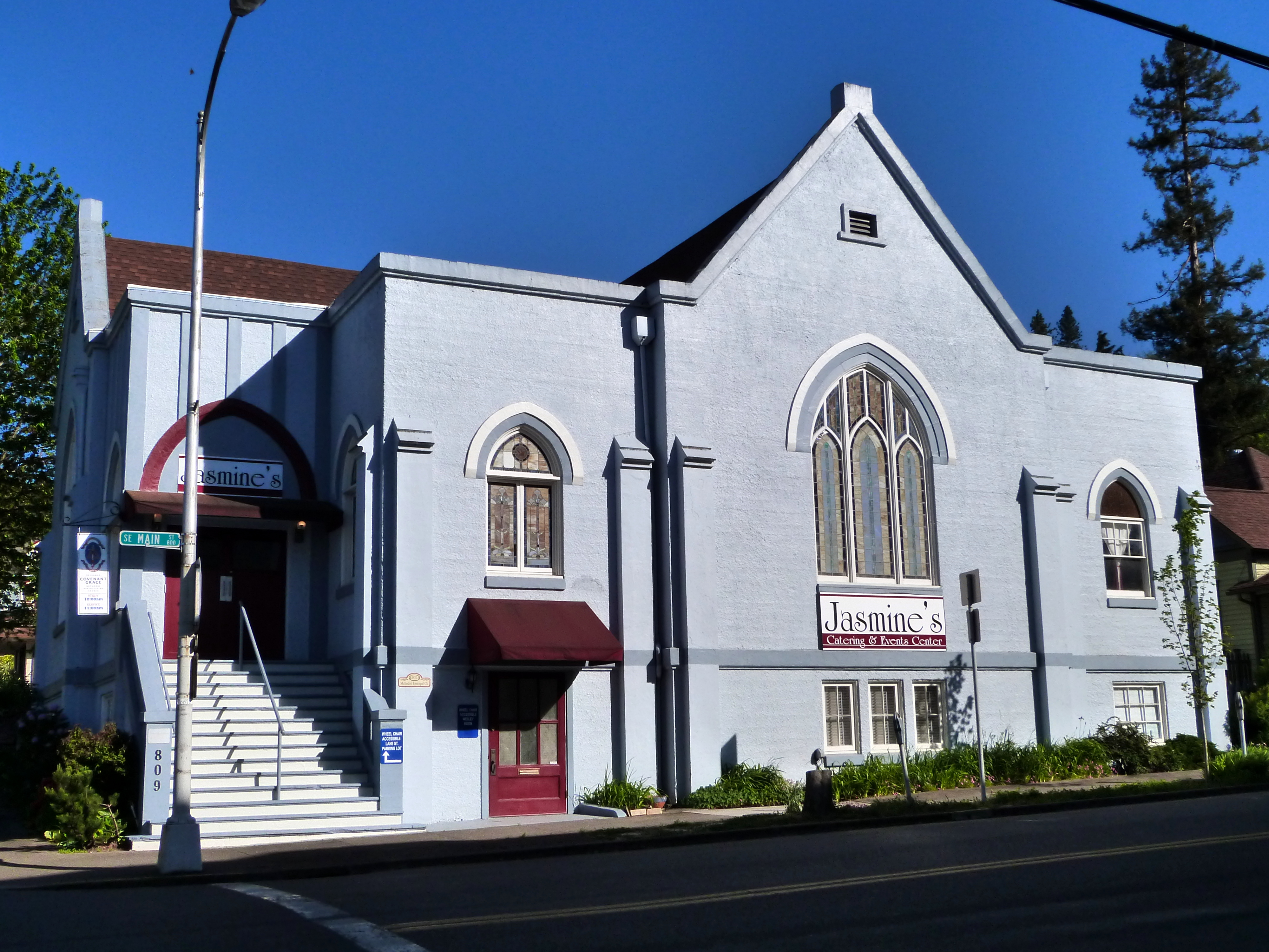 The historic Methodist Episcopal Church South (built 1922), located at 809 Southeast Main Street in Roseburg, Oregon, United States, is listed on the US National Register of Historic Places. As of the photo date, it has been adapted as a commercial event center.